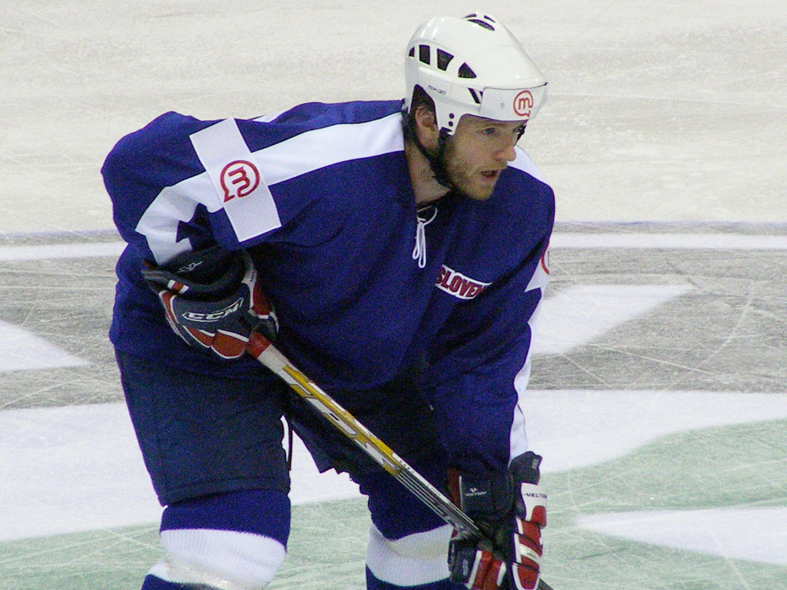 Latvia VS Slovenia (IIHF World Hockey Championship in Halifax NS, May 6 2008)